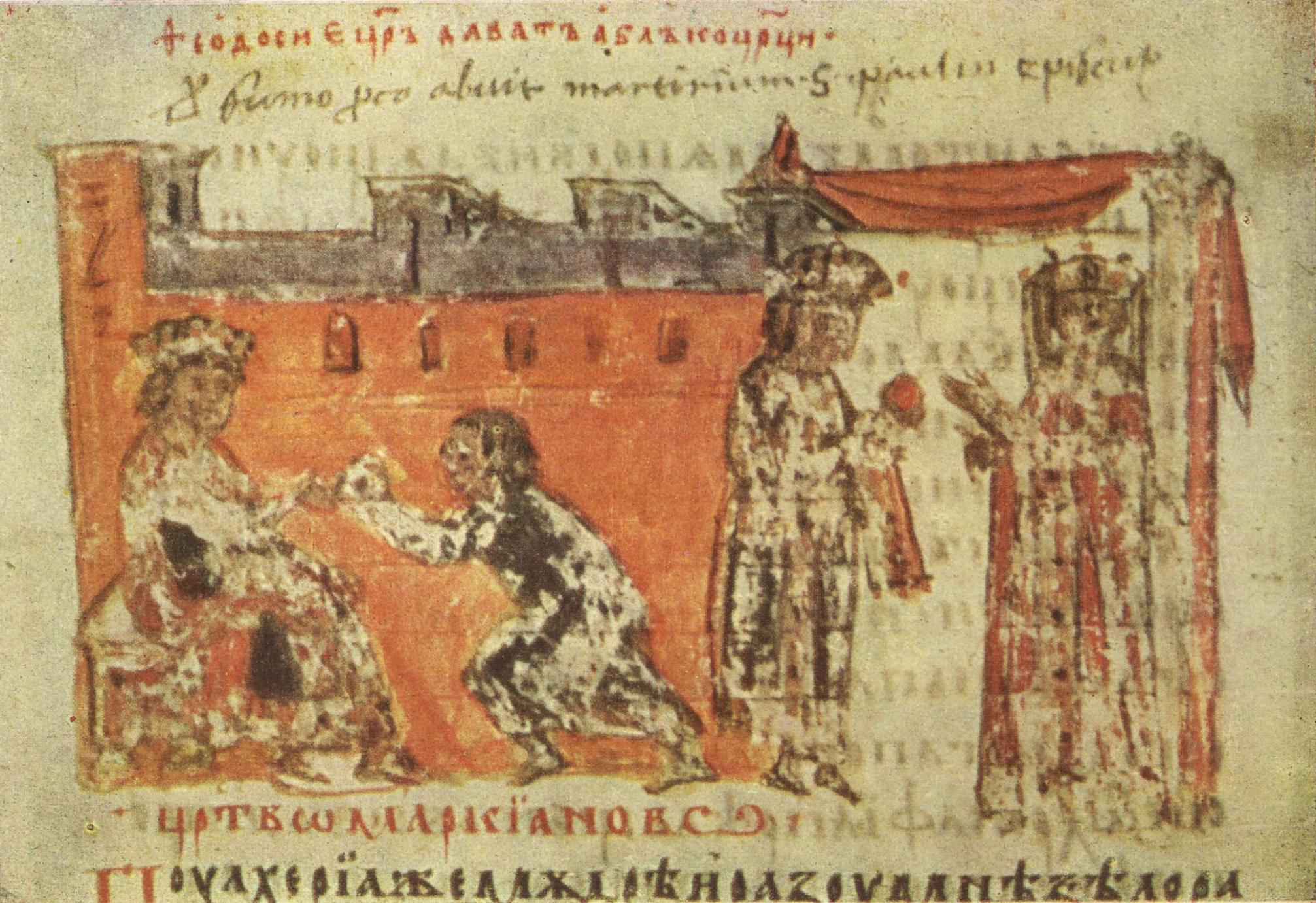 Miniature 34 from the Constantine Manasses Chronicle, 14 century: Emperor Theodosius II and Aelia Eudocia